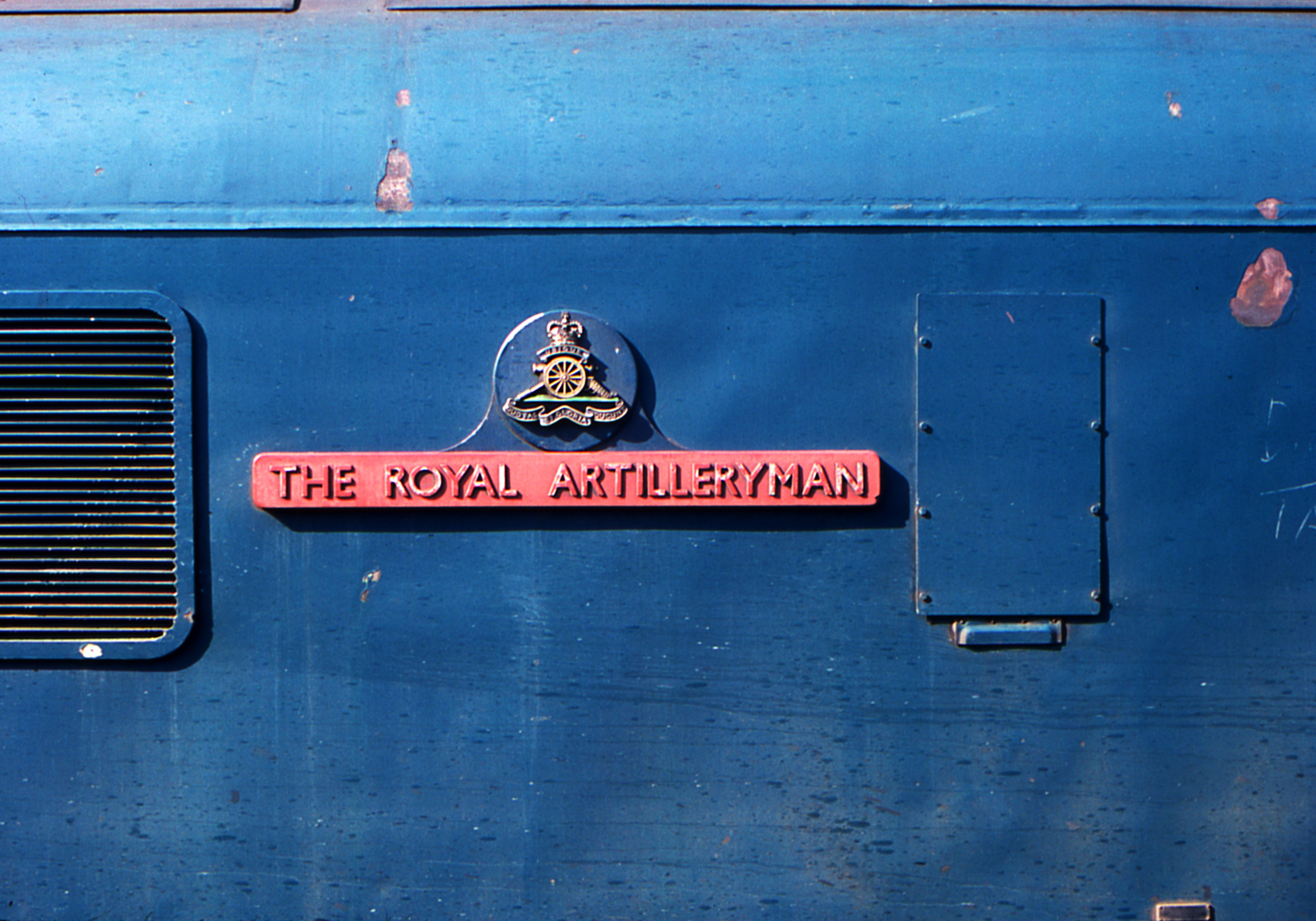 Class 45 No.45 118 at St.Pancras in 1976. 45 118 was delivered new to Derby during May 1962. It would receive a general/refurbish at Derby Works during October 1980. It would be the last Class 45 to receive a scheduled classified repair at Derby Works during April 1986. Eight months later in January 1987 it was the last Peak to receive any type of attention at Derby Works, swapping its bogies with those from condemned 45 116. 45118 was withdrawn during May 1987. Camera: Olympus Pen F Half Frame SLR. Film: Kodachrome.